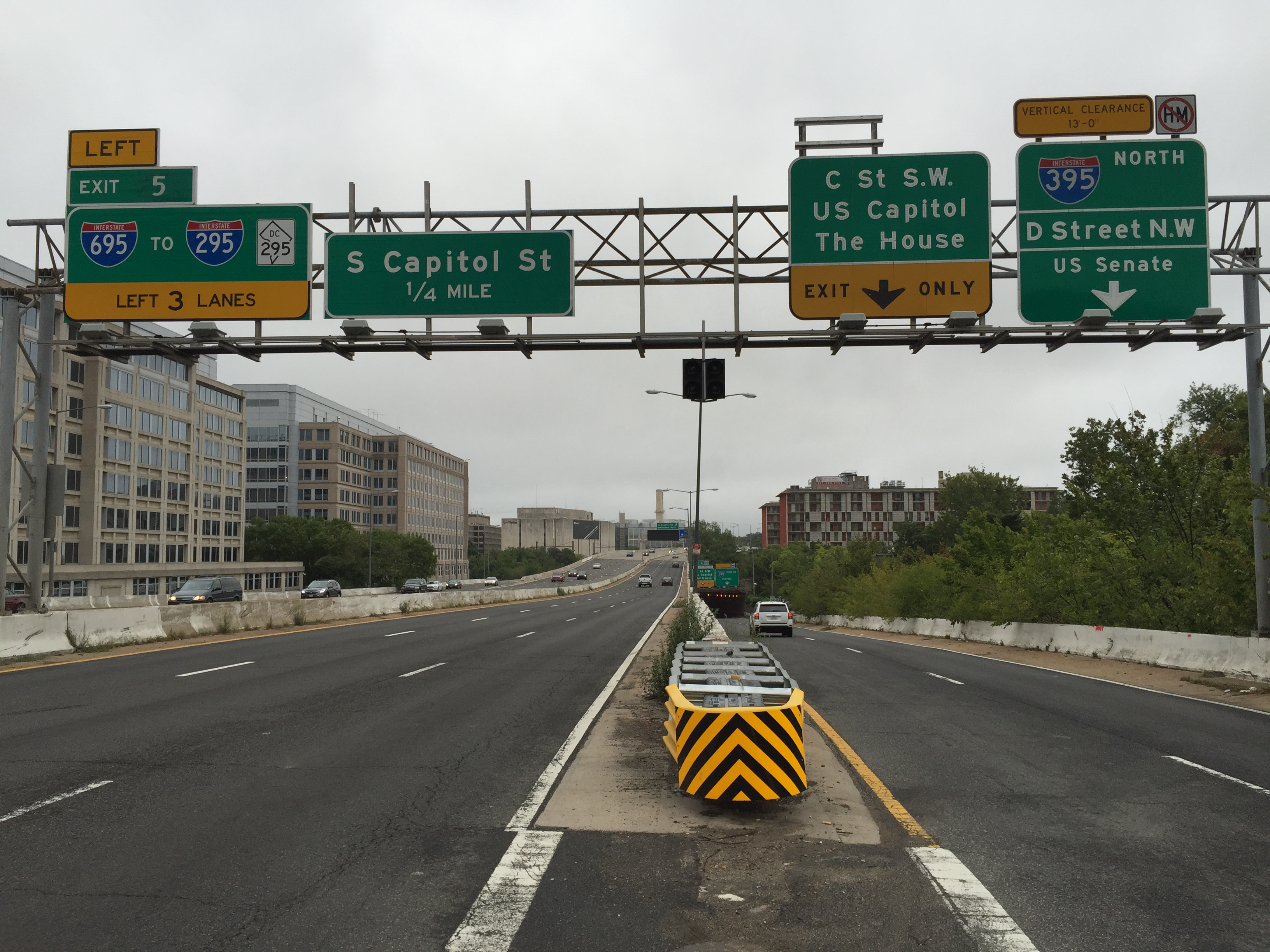 View north along Interstate 395 (Southwest Freeway/Center Leg Freeway) at Exit 5 (Interstate 695 to District of Columbia Route 295 and Interstate 295) in Washington, D.C.